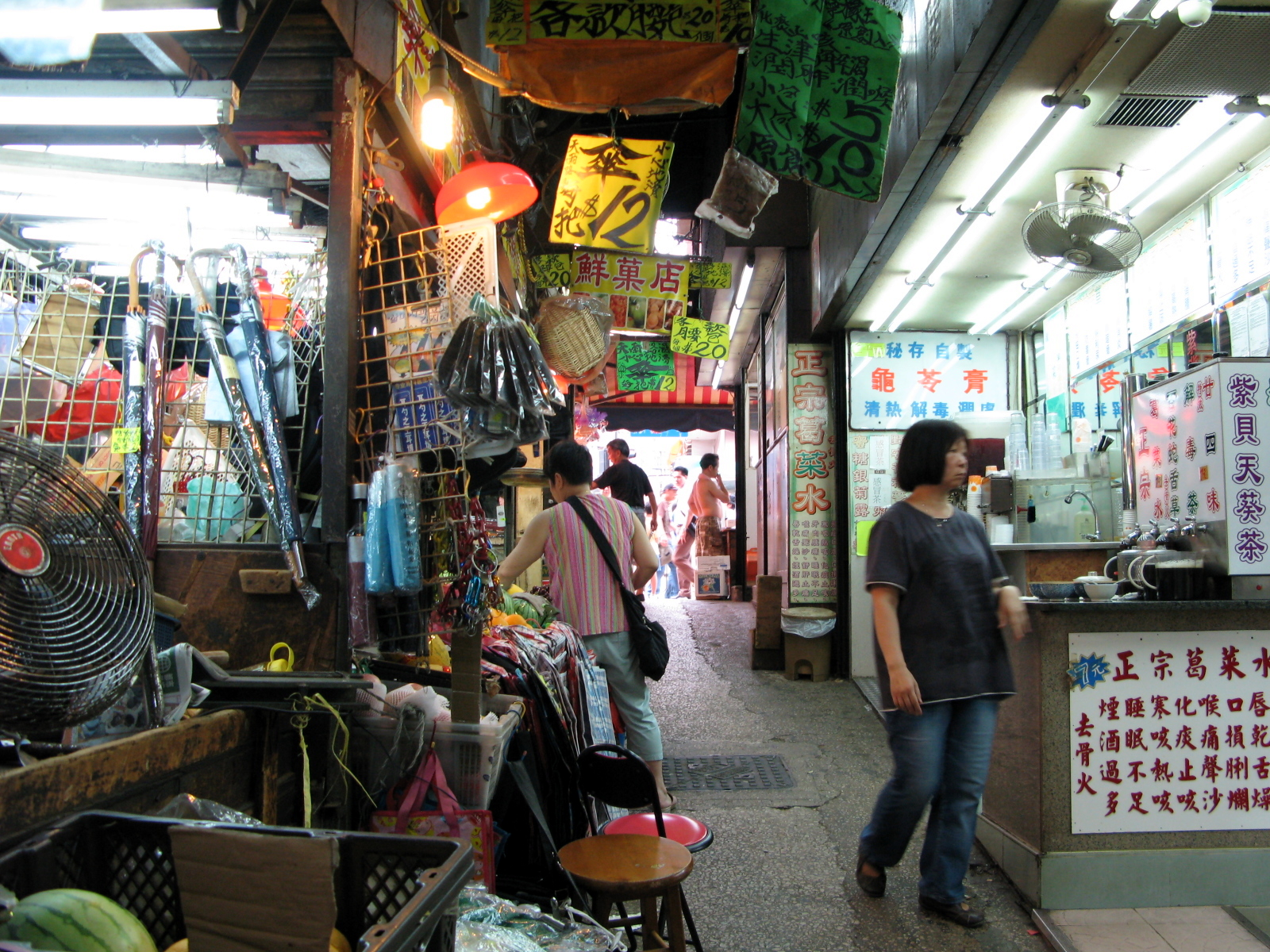 Yue Wah Mansion Shops